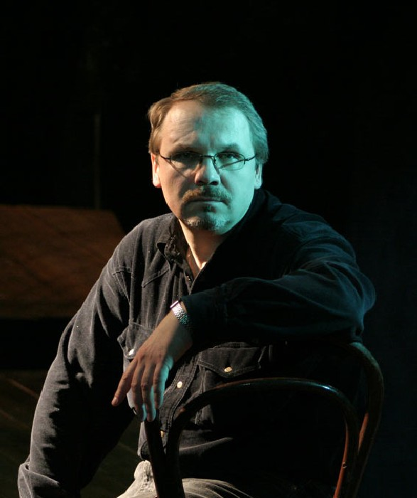 Sergey Fedotov - founder of Theatre Near the Bridge in Perm.